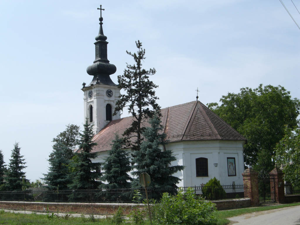 Serbian Orthodox Church in Aradac, Vojvodina, Serbia